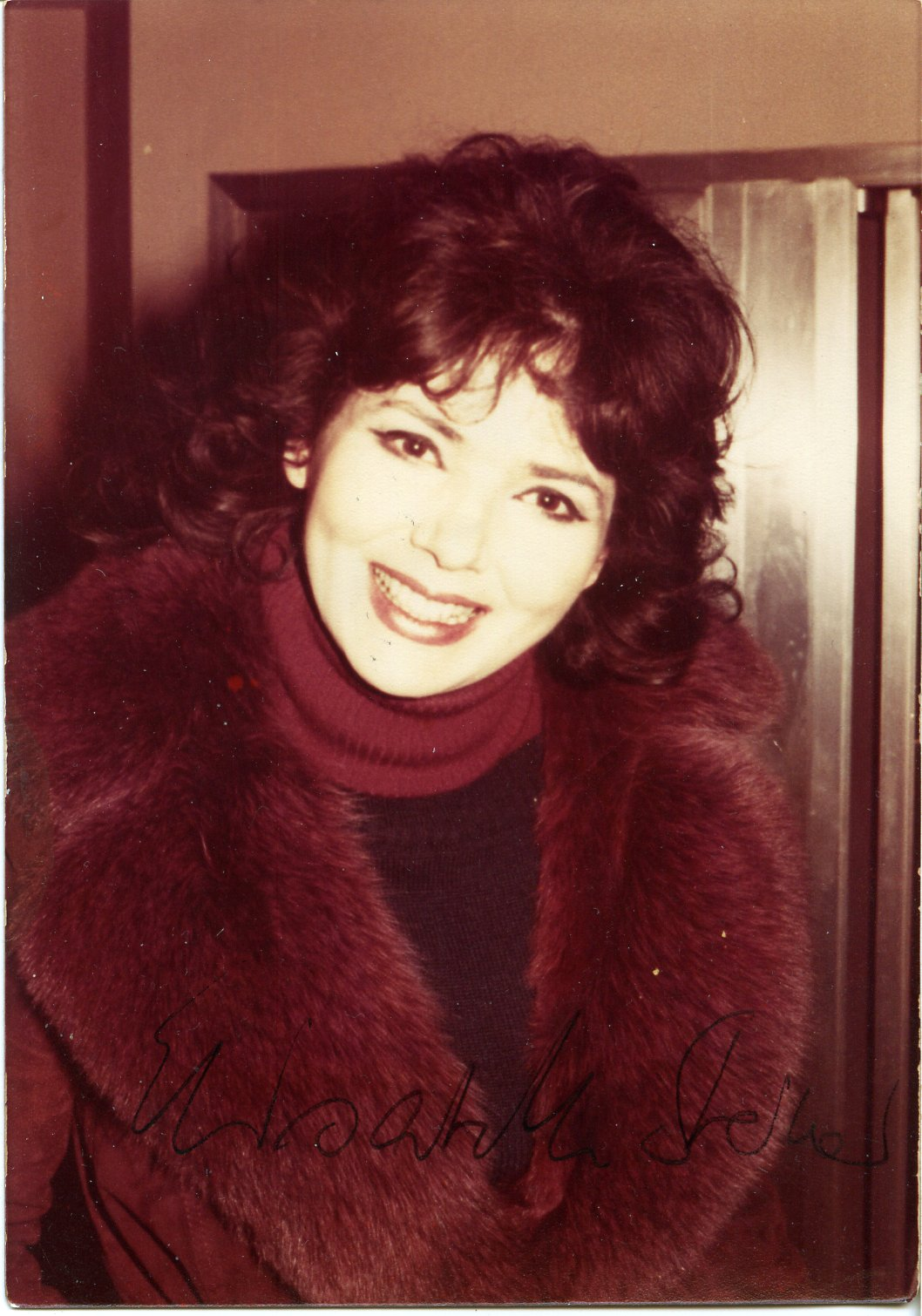 Elisabeth Steiner 1978